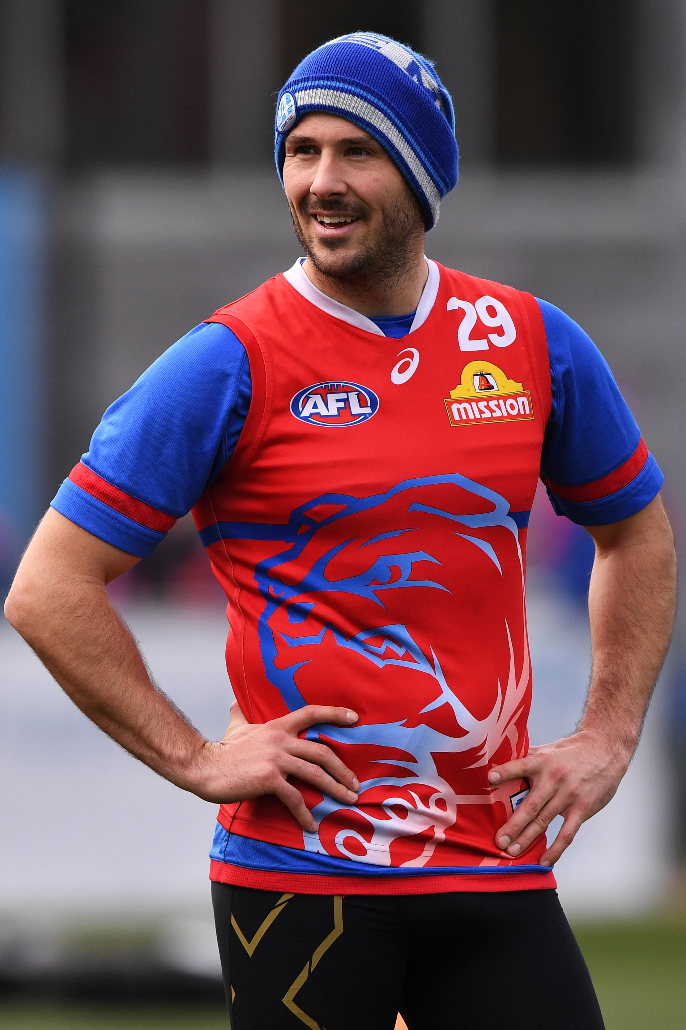 Tory Dickson of the Western Bulldogs during Western Bulldogs training on 7 August 2018 at Whitten Oval in Melbourne, Victoria.